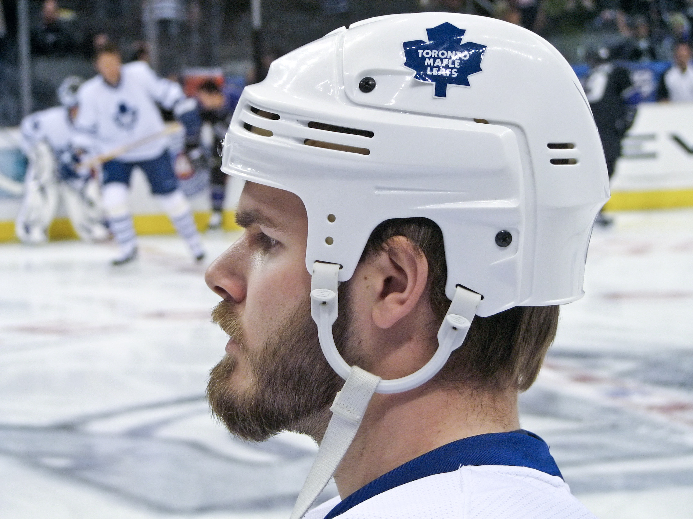 White warming up prior to a game on January 10, 2008.